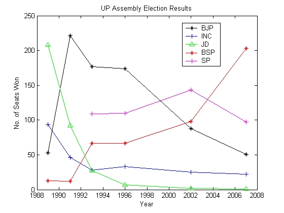 The results of the UP assembly elections since 1989. ಕನ್ನಡ: 1989ರಿಂದ ಯುಪಿ ಅಸೆಂಬ್ಲಿ ಚುನಾವಣೆಗಳ ಫಲಿತಾಂಶ.